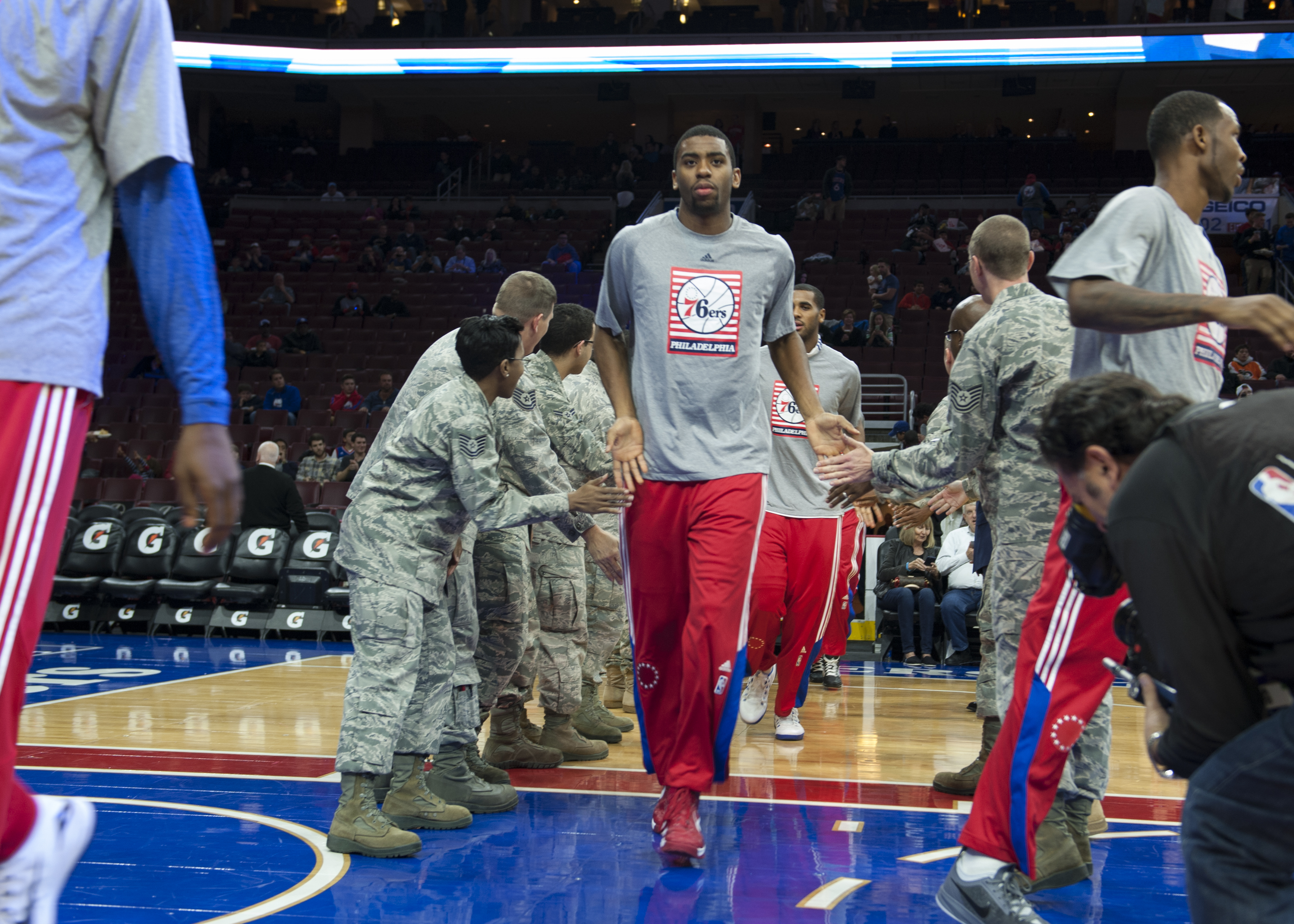 Hollis Thompson, 76ers guard/forward, and the rest of the 76ers team high-five U.S. military servicemembers prior to a Chicago Bulls versus Philadelphia 76ers basketball game Nov. 7, 2014, at the Wells Fargo Center, in Philadelphia. The 76ers organization hosted hundreds U.S. military servicemen for a special “Commitment to Service” night. (U.S. Air Force photo/Airman 1st Class Zachary Cacicia)